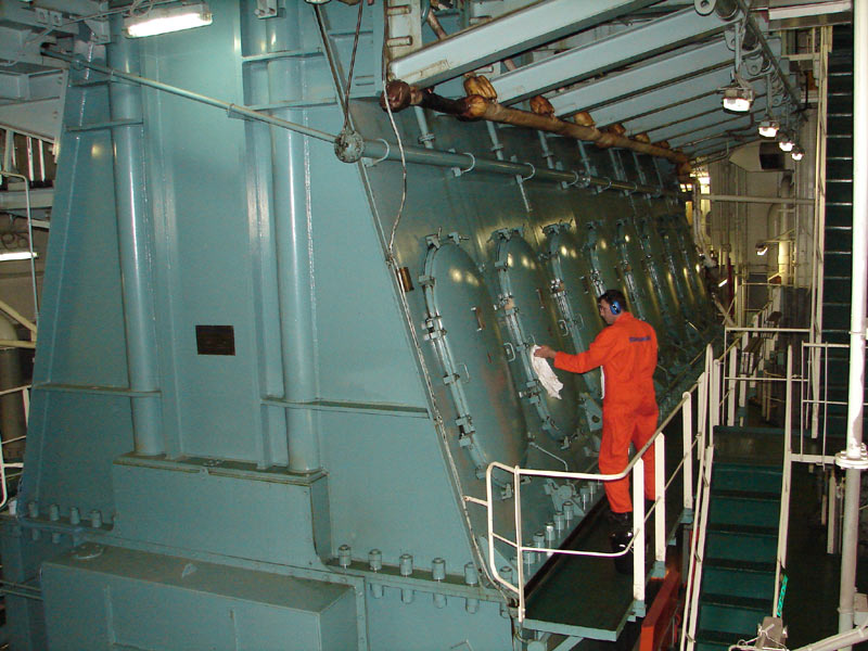 Main engine of the VLCC Algarve : Man B&W, 25 800 kW, 8 cylindres